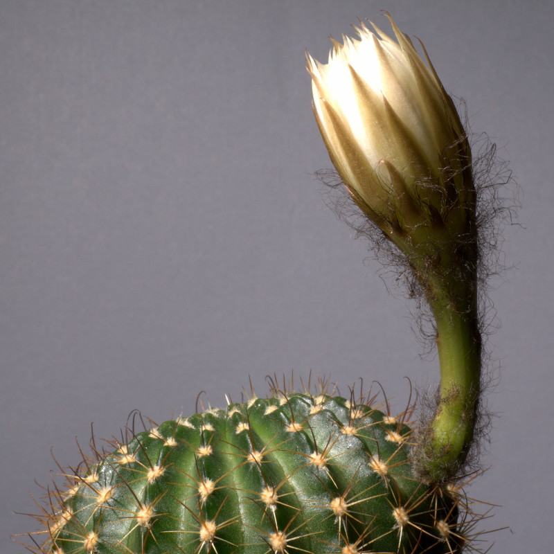 Echinopsis ancistrophora